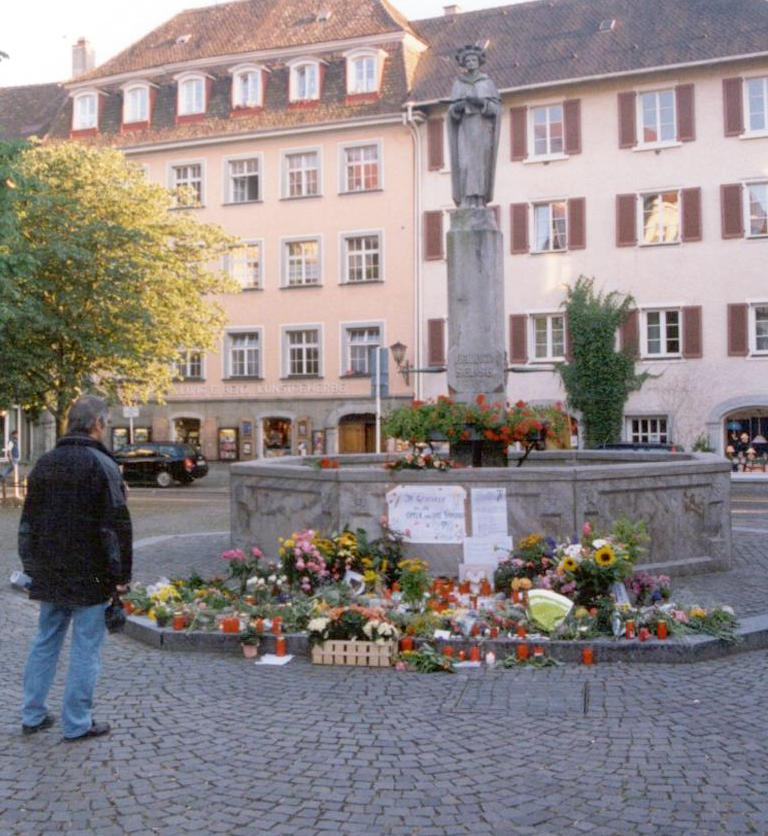 impromptu memorial at the Sosu fountain, for the victims of the plane crash